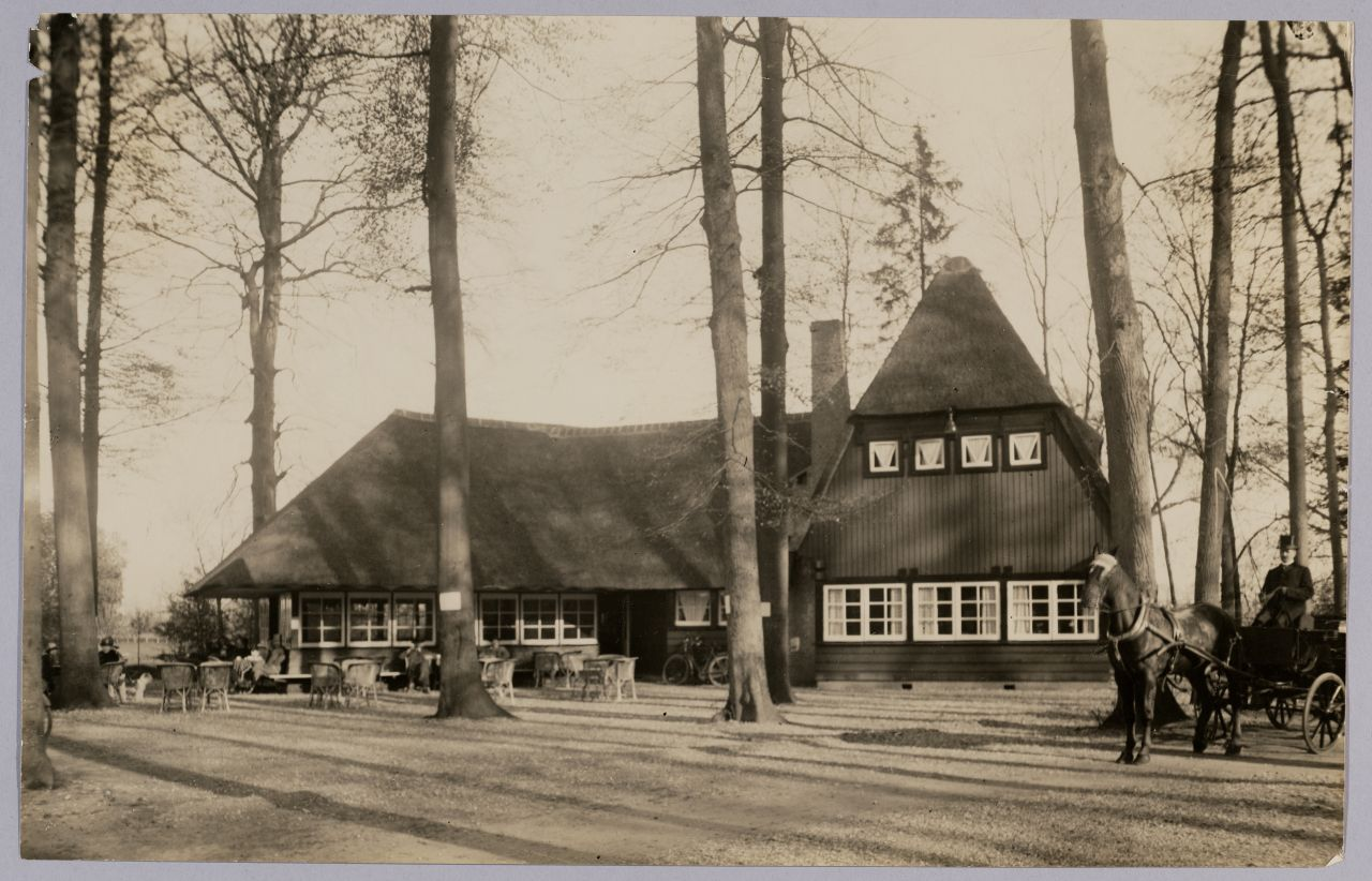 Theehuis, Rhijnauwen, Utrecht. Architect: G. van der Gaast. Fotograaf: onbekend. Collectie NAi / TENT_o103 URL van deze afbeelding: Meer foto's uit deze collectie kunt u bekijken in de Collectiedatabase van het NAi. Niet van alle gebouwen en interieurs zijn alle gegevens bekend. Heeft u meer informatie of weet u het adres van een gebouw? Laat dan een reactie achter (als u ingelogd bent bij Flickr) of stuur een mailtje naar: Al deze foto's zijn gemaakt in de eerste helft van de twintigste eeuw. Wij zijn benieuwd hoe deze gebouwen er vandaag de dag uitzien. Heeft u recente foto's van deze gebouwen of locaties, voeg ze dan toe als commentaar. U kunt een eigen Flickr-foto toevoegen door de URL ervan tussen vierkante haken in het commentaarveld te plakken. Als uw foto's een Creative Commons licentie hebben, nemen we ze bovendien graag op in de NAi Collectiedatabase. Tea-house, Rhijnauwen, Utrecht. Architect: G. van der Gaast. Photographer: unknown. NAI Collection / TENT_o103 Persistent URL: For more photographs from this collection, please visit the NAI Collection Database You can help us gain more knowledge on the content of our collection by adding a comment with information. If you do not wish to log in, you can write an e-mail to: All these pictures are taken in the first half of the twentieth century. We are curious to learn how these buildings look like today. If you have recently taken photographs of these buildings or locations, please add them to your comment. If you'd like to include a Flickr photo, simply copy and paste its URL between square brackets in the commentary-field. Photos with a Creative Commons licence may be used to illustrate the NAi Collection Database.